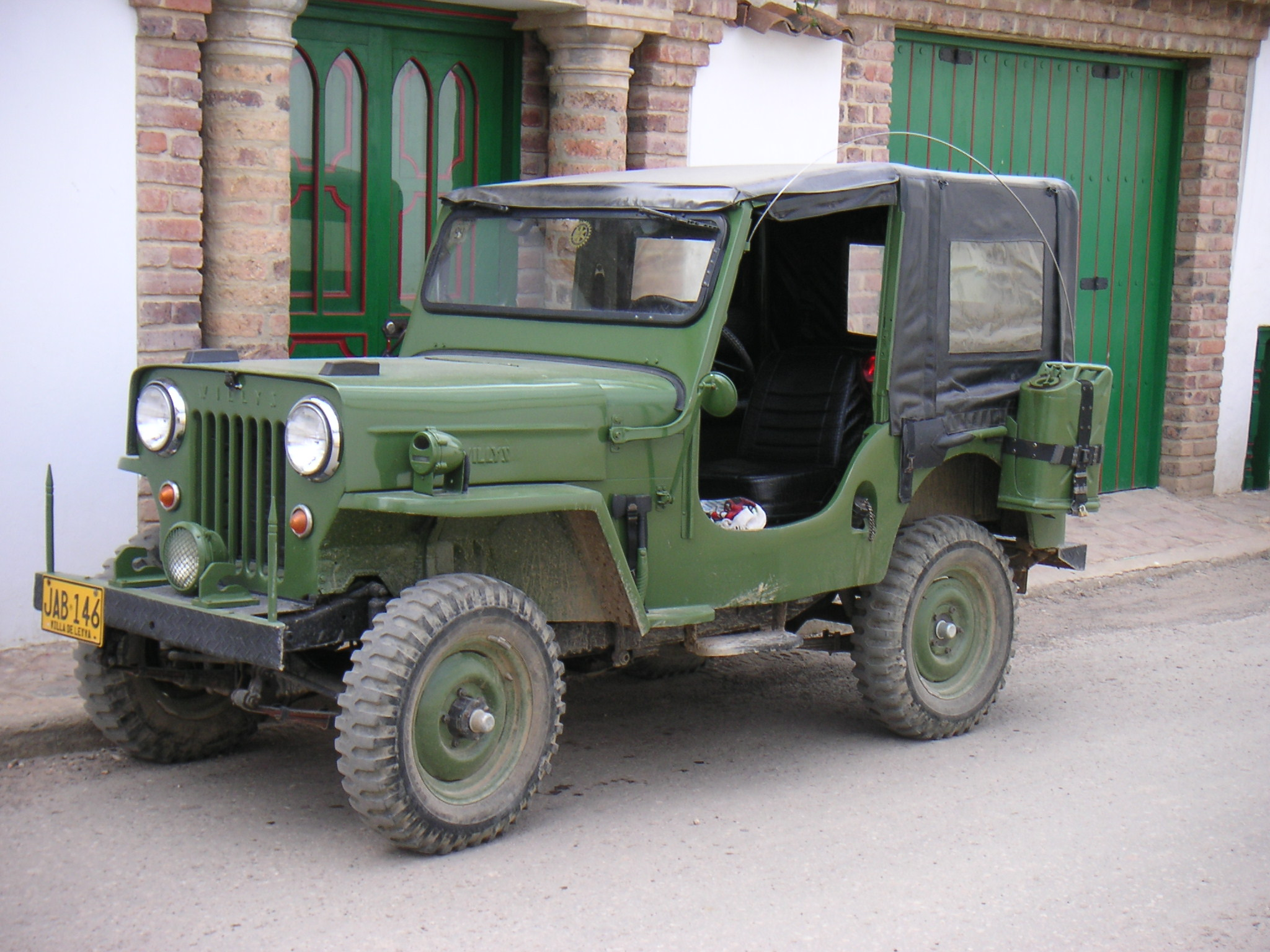 Jeep CJ-3B, Villa de Leyva, Colombia.